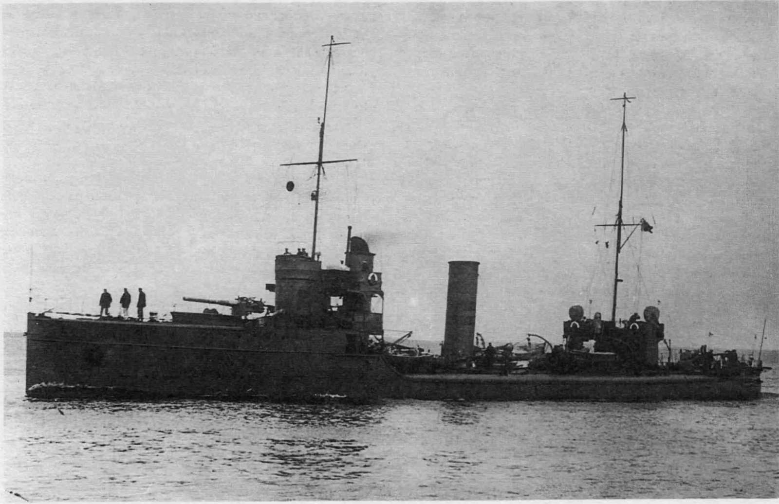 Imperial Russian destroyer Ussutiets.